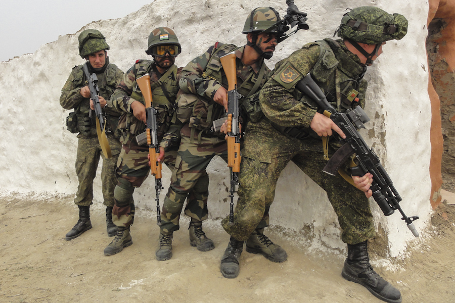 Practical action training during the Indra-2015 joint exercise